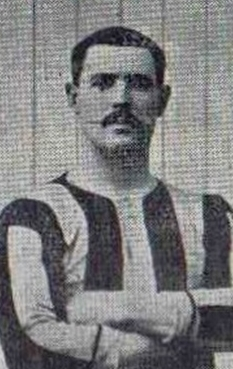 William Halley while with Brentford FC in 1902/03